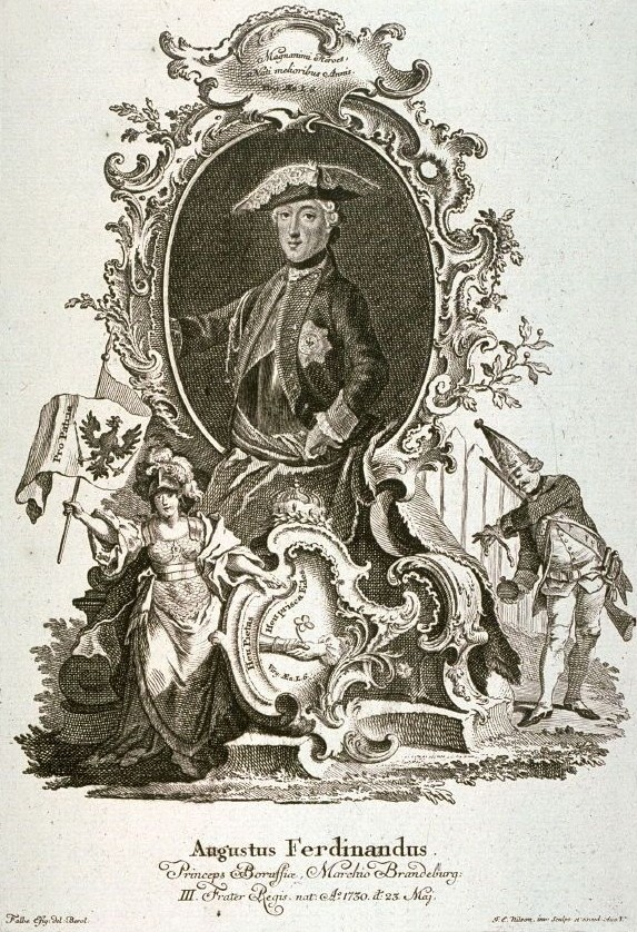 Portrait of August Ferdinand, Prince of Prussia